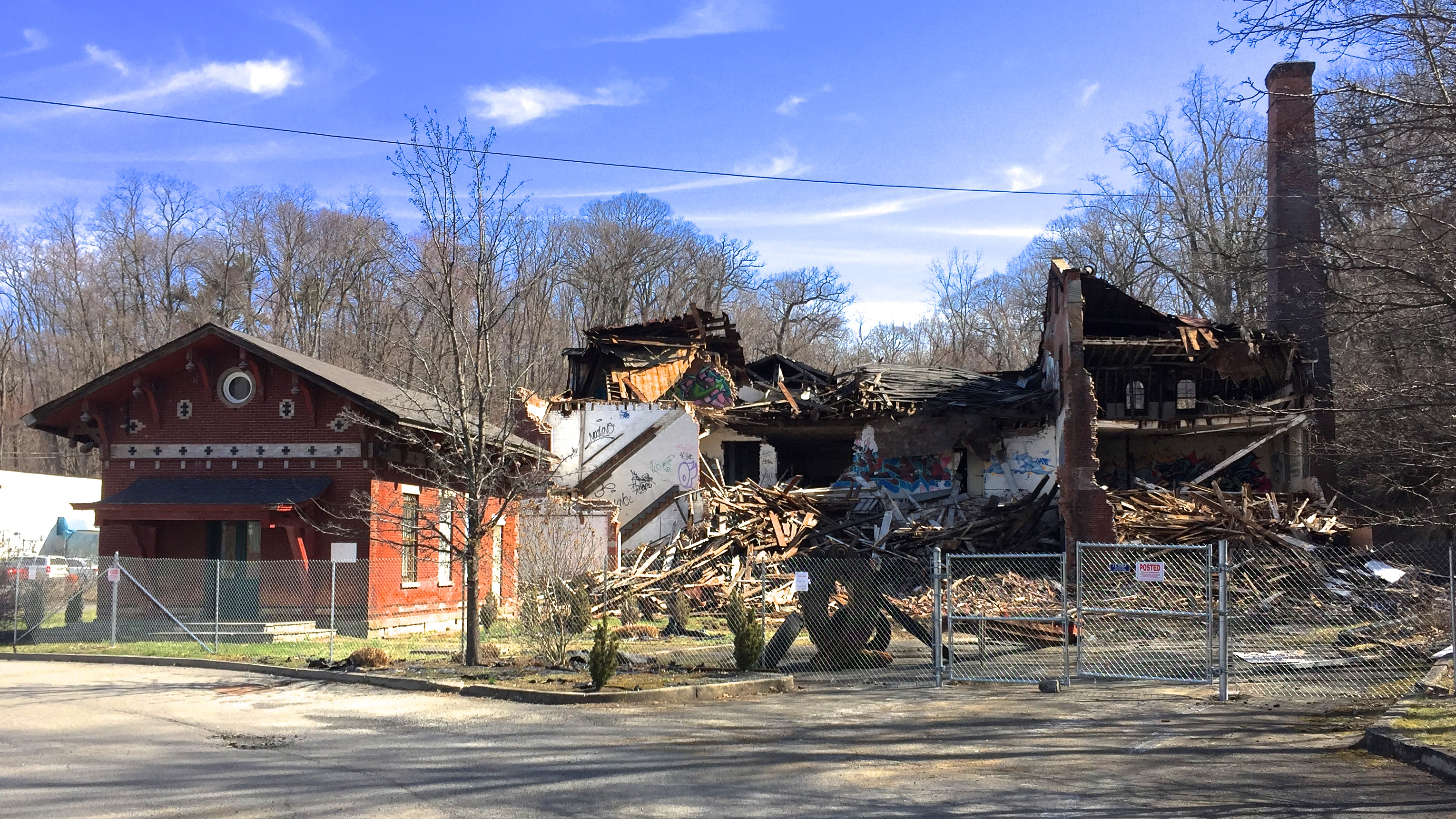 Photograph showing the status of the Brandreth Pill Factory buildings as of the posting of a Village of Ossining, NY Building Department "Stop work" sign, dated April 14, 2015, citing "Demolition without a permit" as reason.